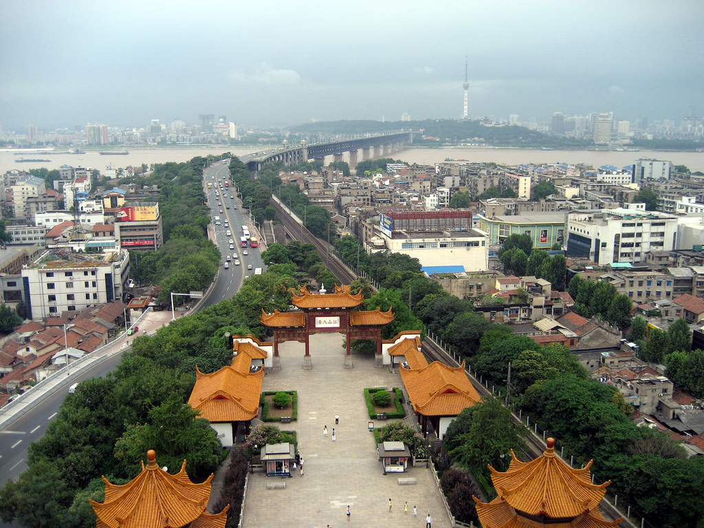 From Yellow Crane Tower see Wuhan (Hubei, China).